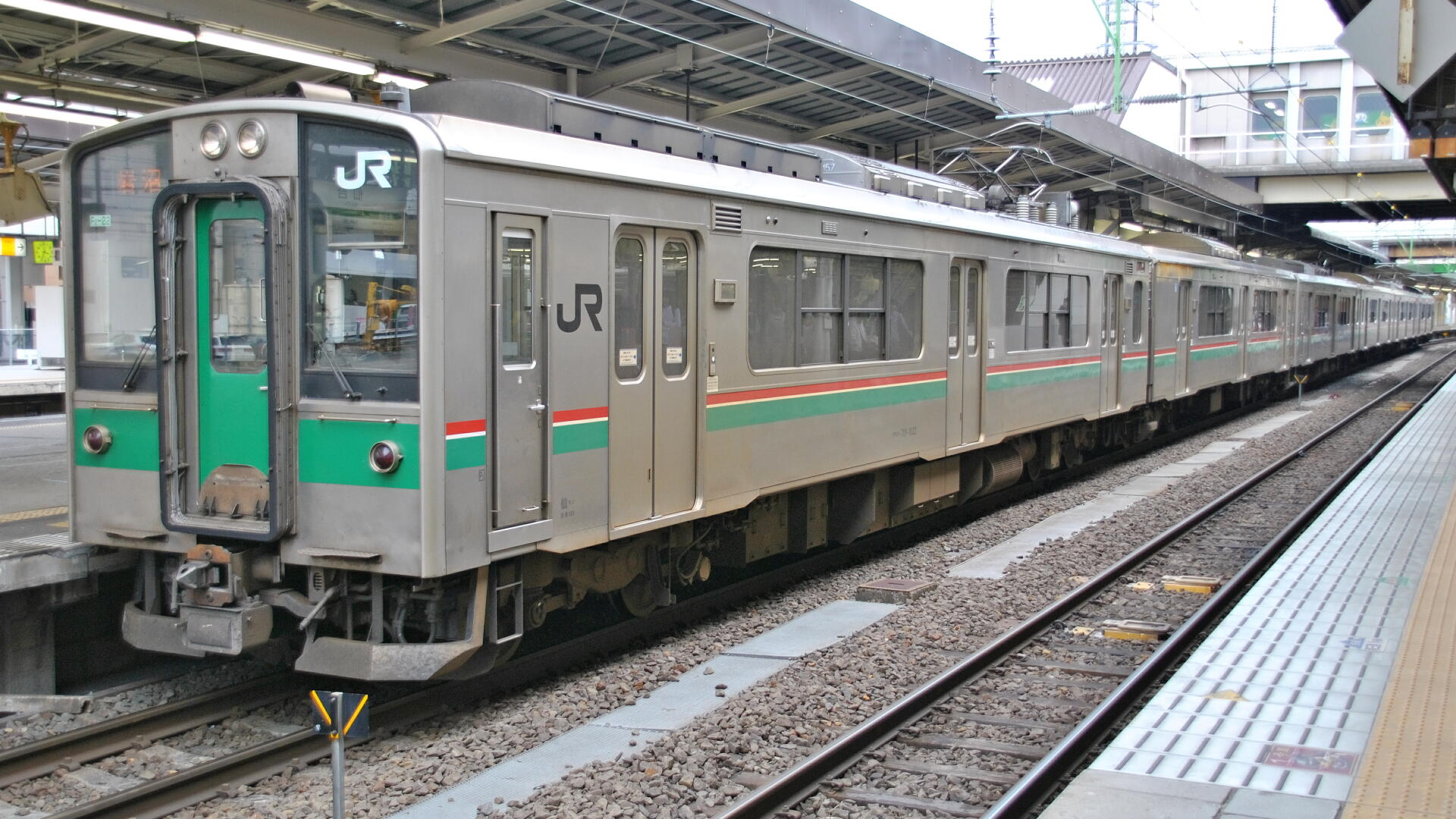 JR East 701-1000 series EMU (location unknown)